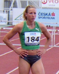 Athletes before start of women's 400 m hurdles race at 17th edition of the Josef Odložil Memorial (EAA Premium Meeting, Na Julisce Stadium, Prague, Czech Republic, 14 June 2010). The race was won by Hejnová in 54.68 s. (184) Zuzana Bergrová